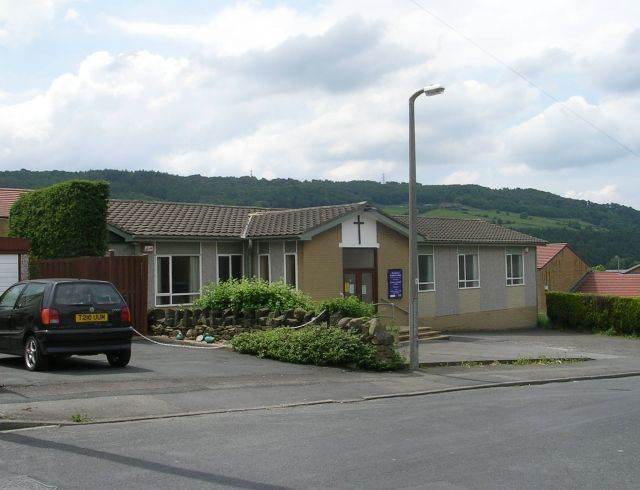 St Aidan's Church - Canal Road, Crossflatts